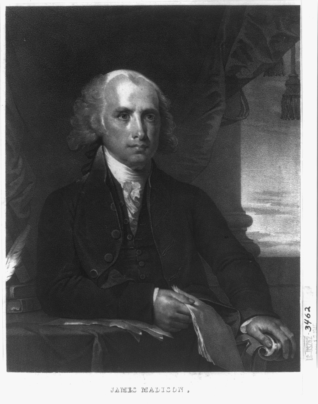 lithograph half-portrait of James Madison, President of the United States from around 1828.